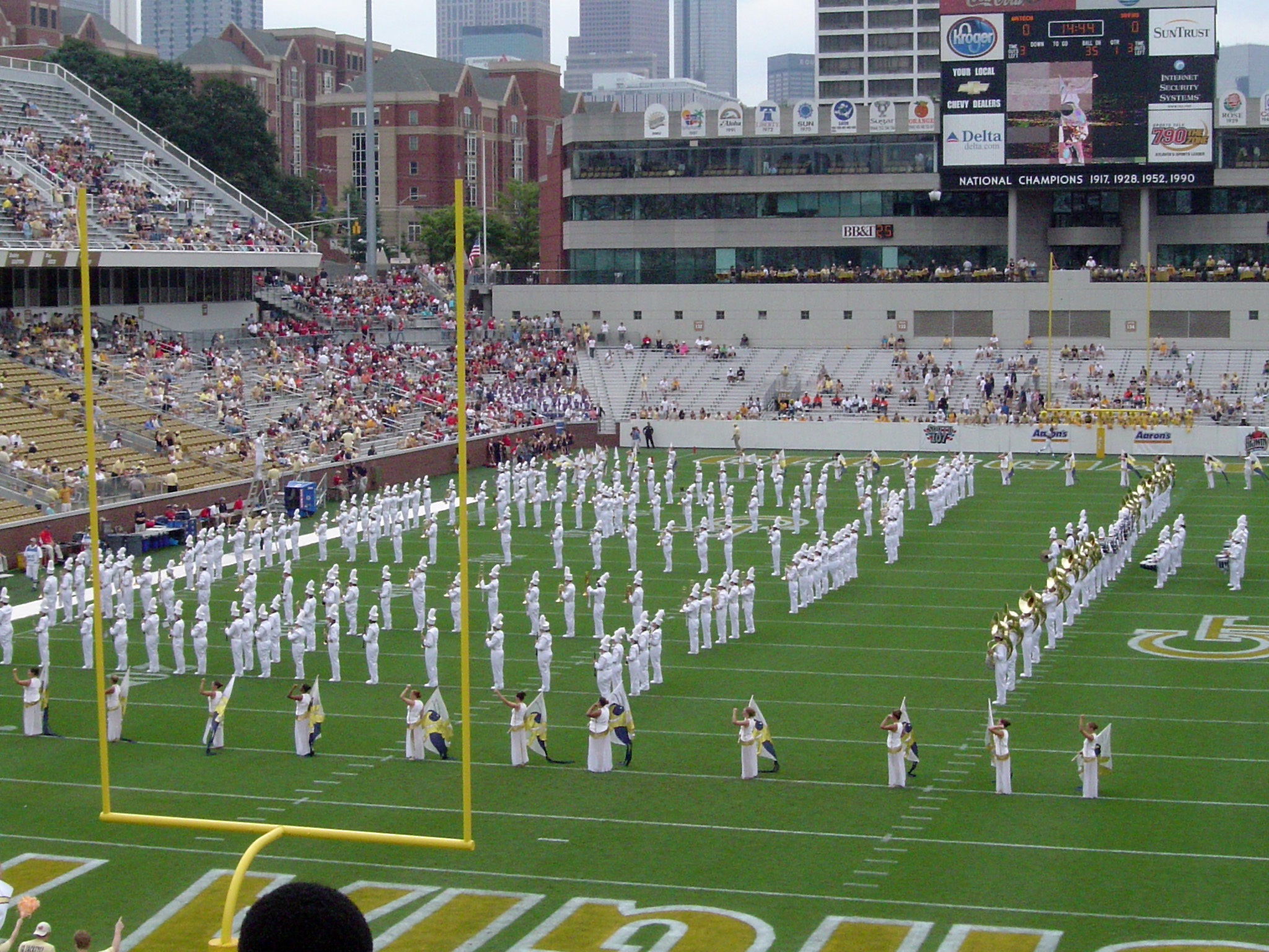 The Georgia Tech Marching Band plays a pregame show at Grant Field inside Bobby Dodd Stadium at Georgia Tech on September 4, 2004. Photo taken by Hillary Lipko and released under CC Attribution 2.5. Category:Georgia Tech Yellow Jackets football